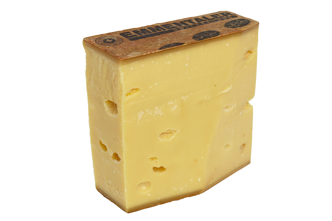 18-months matured raw milk Emmental AOC Extra from the Selection Rolf Beeler (Switzerland)